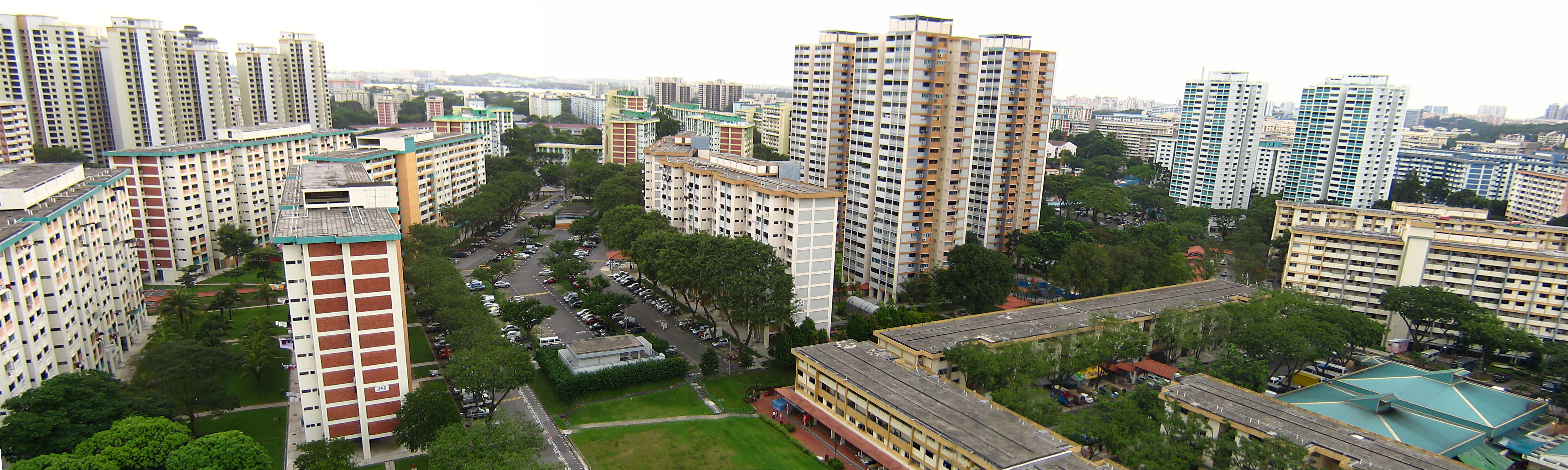 A bird's eye view of Clementi Town (facing west)